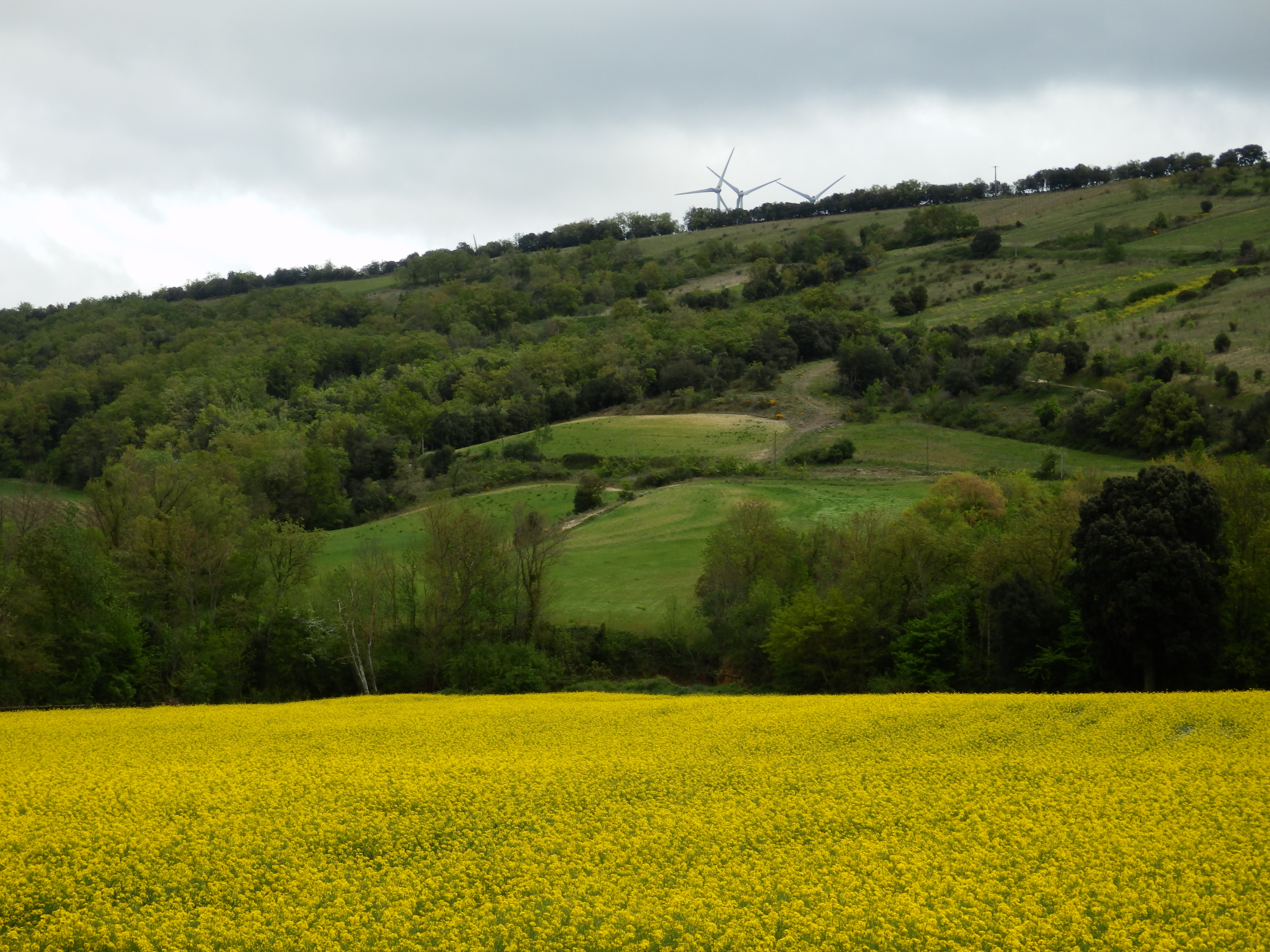 Colza field in Castelreng, Aude, France